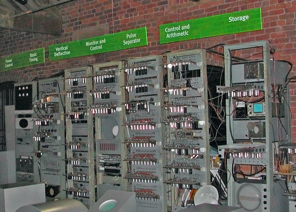 Manchester University SSEM 'Baby' replica on display at the Museum of Science and Industry in Manchester.